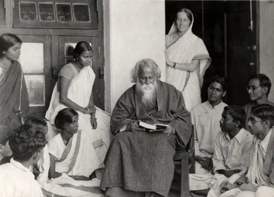 Rabindranath Tagore reading to others